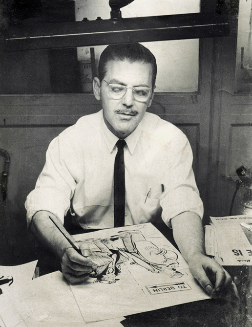 Photograph from family file that represents Joaquín de Alba drawing in the editorial office of The Washington Daily News, circa 1965.